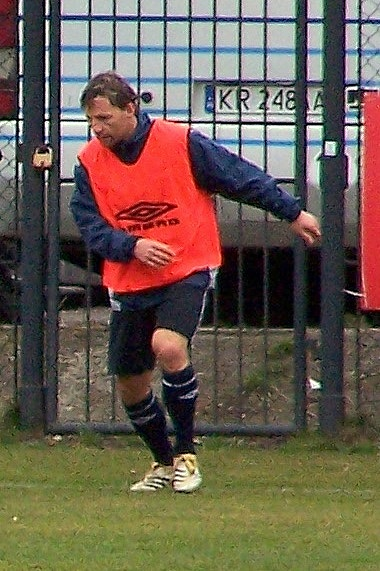 Marek Penksa during practice Wisla Cracov 2007